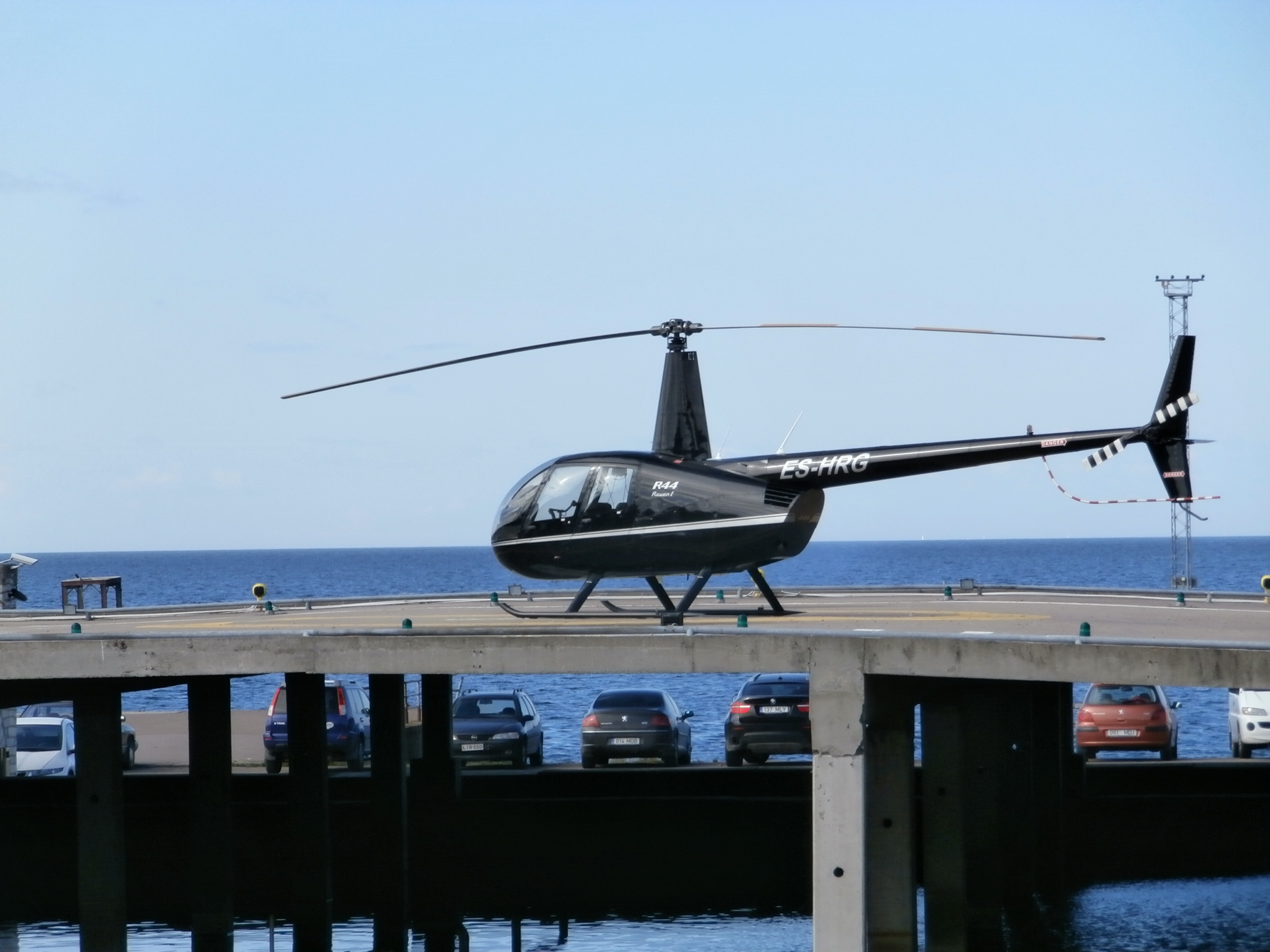 ES-HRG Robinson R44 Raven I No 1917 City Hall Tallinn 2 August 2013